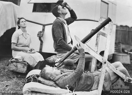 Australian War Memorial (AWM) catalog number P00024.028 A Volunteer Air Observer Corps post in 1943